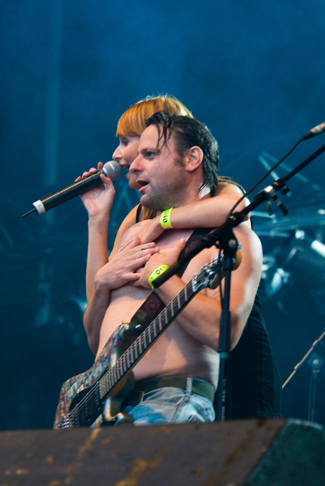 Isabelle Adam en Luc De Vos, 0110 concert on 1 November 2006 in Gent, Belgium